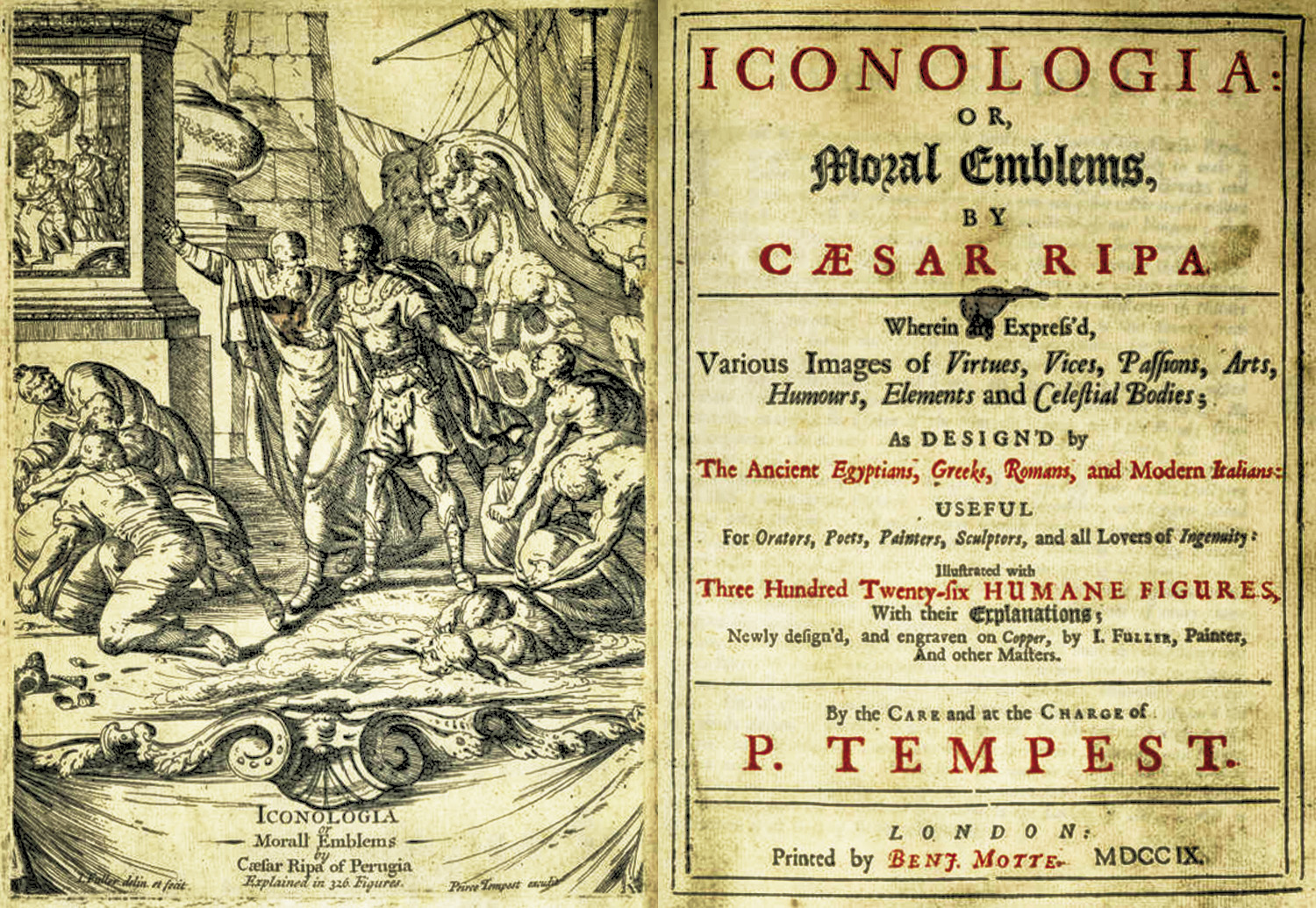 This is the Isaac Fuller engraving and title page from the 1709 Pierce Tempest edition of Iconologia, an emblem book written in 1593 by Cesare Ripa, the pseudonym for Giovanni Campani. The first edition was not illustrated, but a second edition of 1603 included engravings. The Tempest edition of 1709, in English, included the Fuller engraving.